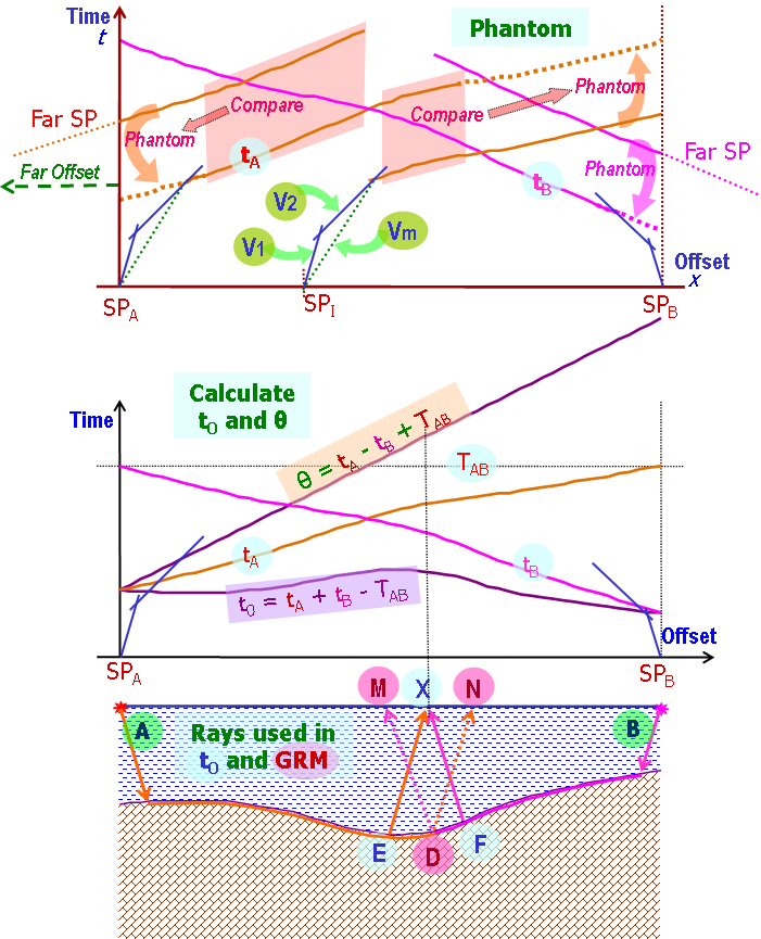 Seismic Refraction, Calculation of interfaces